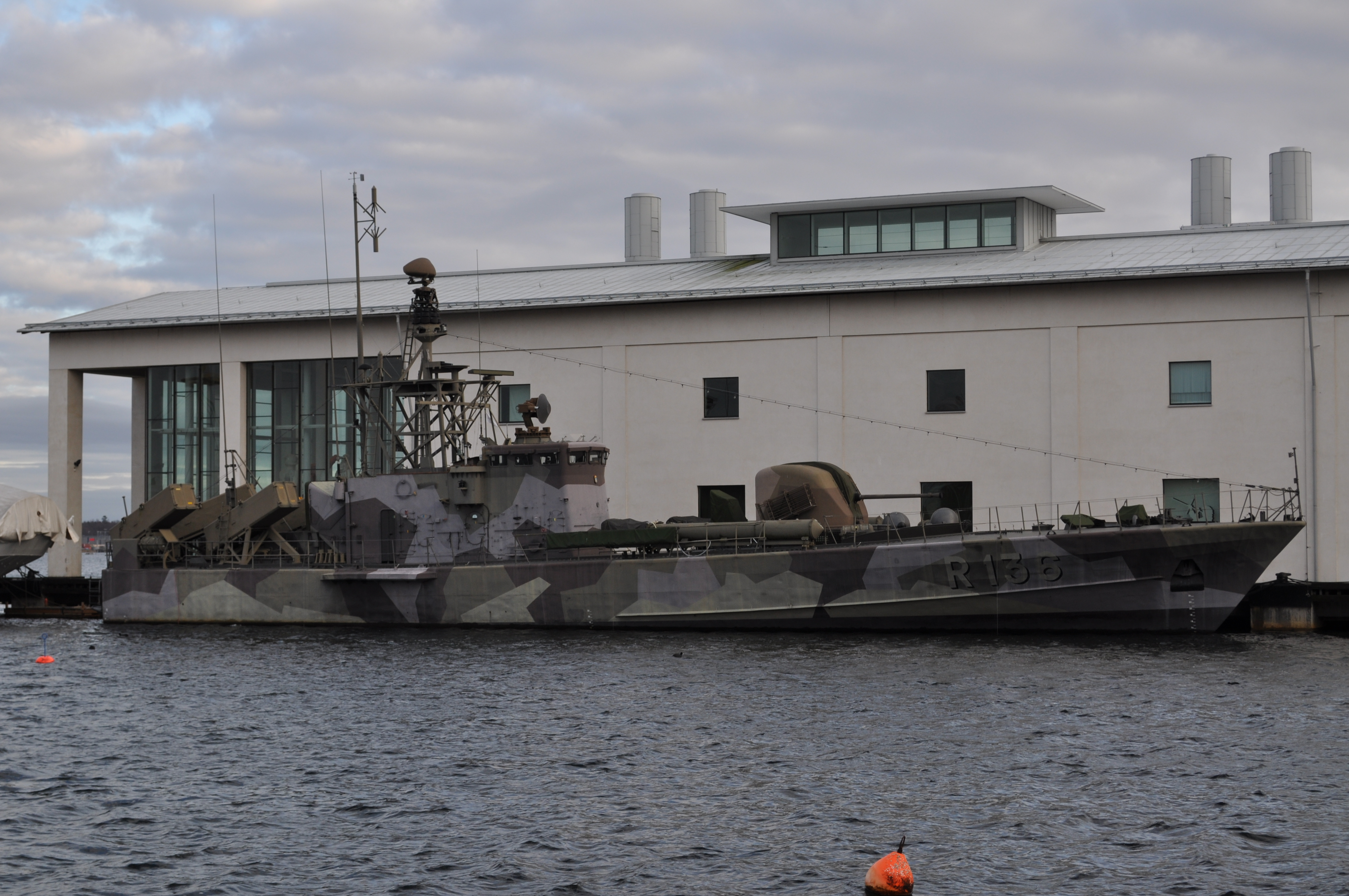 Spica boat HMS Västervik (T136/R136).